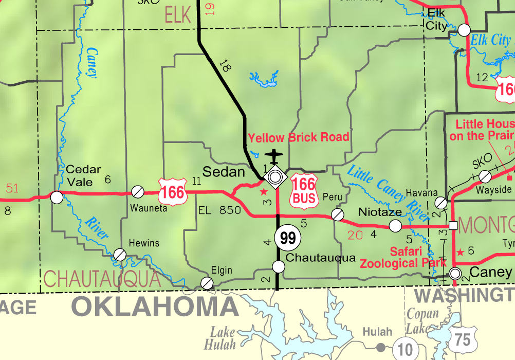 This map of Chautauqua County, Kansas, USA, is copied at a resolution of 300 pixels/inch from the original PDF file.